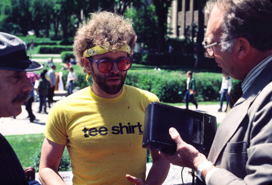 Pete Wagner, activist-artist-organizer, June 2 1982 Generic Demonstration, University of Minnesota. Activist Marv Davidov, left; anthropology professor Luther Gerlach, right. Event attracted over 5,000 participants.